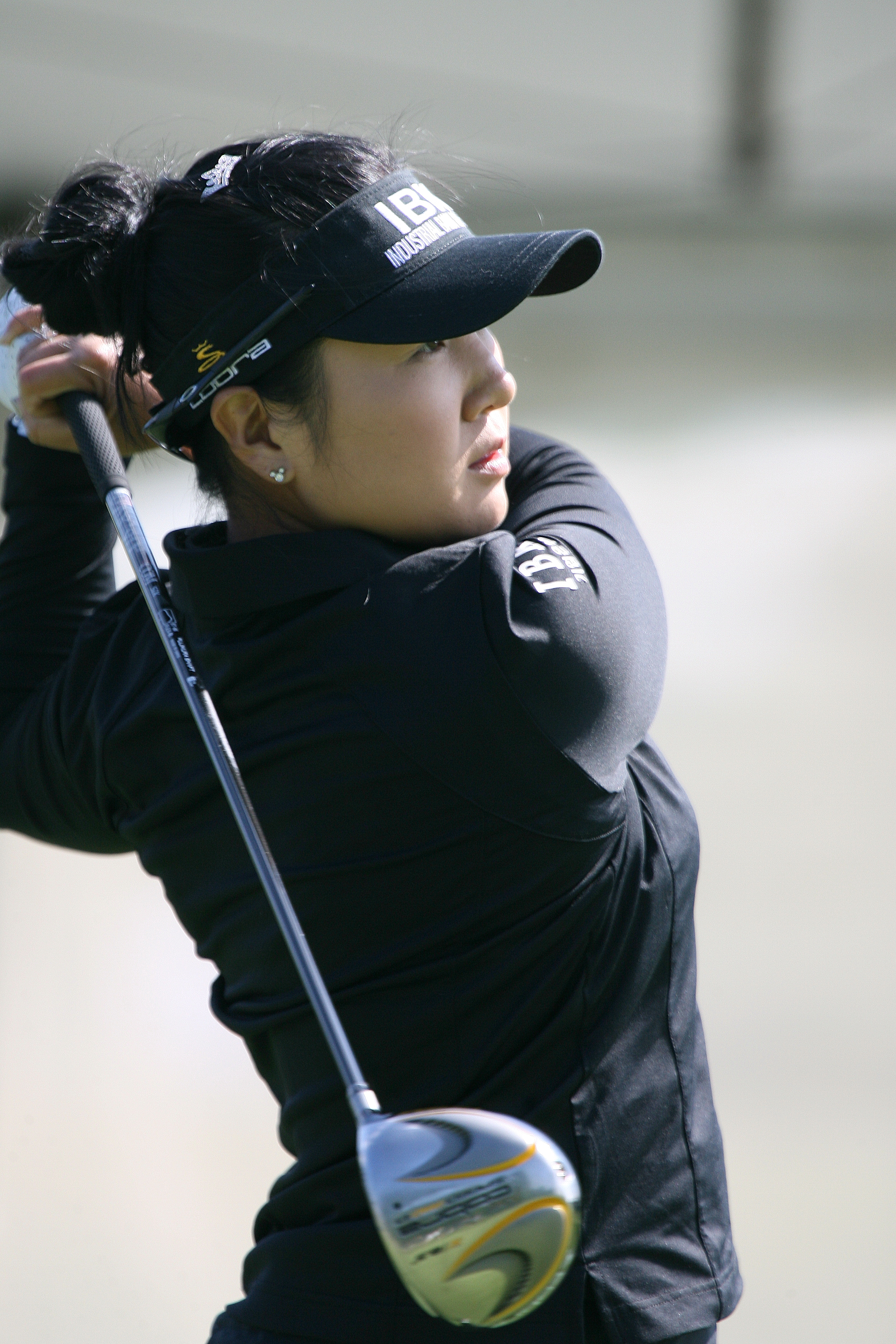 HAVRE DE GRACE, MD - JUNE 06: Jeong Jang (KOR) during practice before 2007 LPGA Championship held at Bulle Rock Golf Course, on June 6, 2007 in Havre de Grace, Maryland. (Photo by Keith Allison)